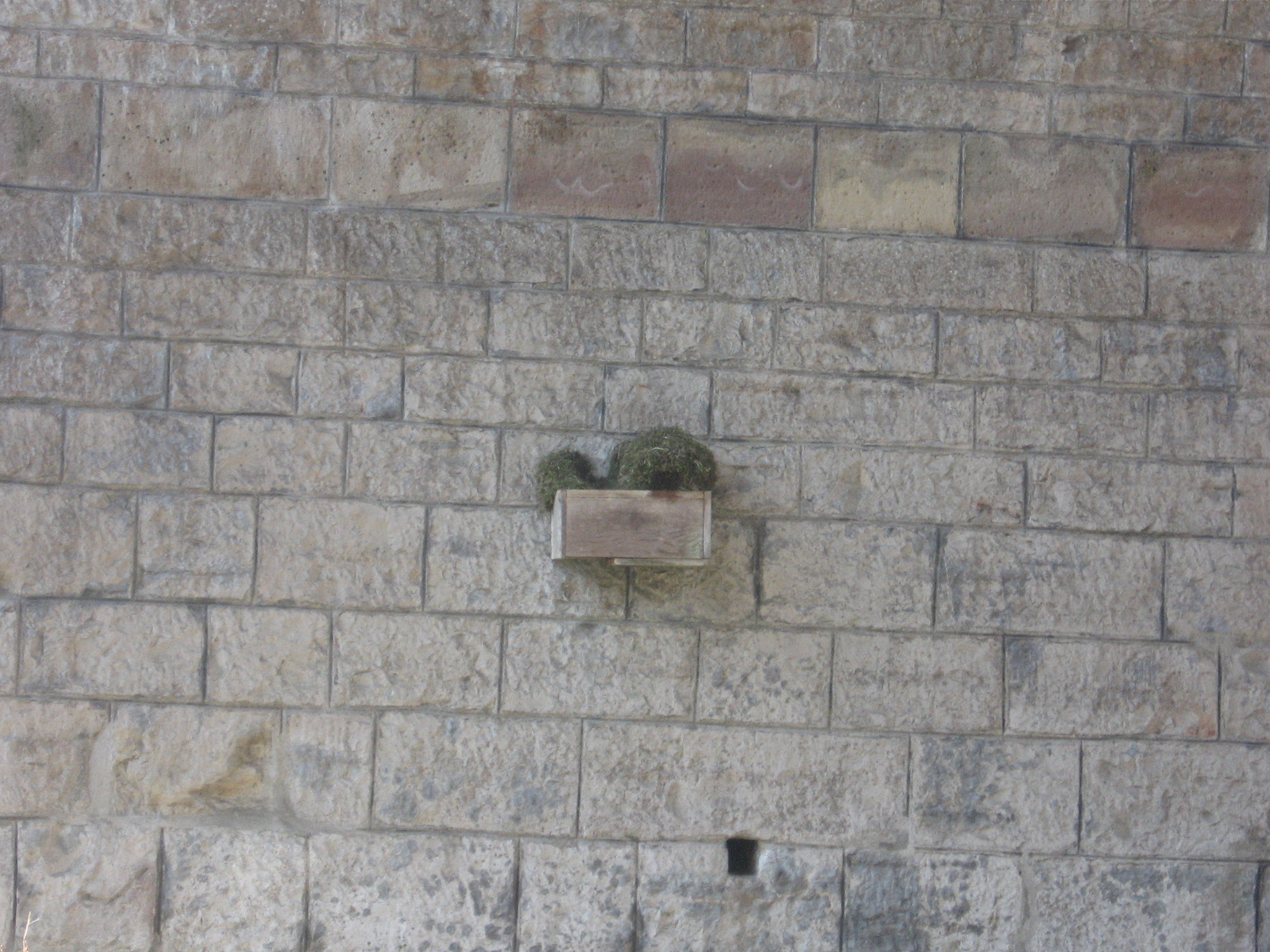 White-throated Dippers nest over a White-throated Dipper nesting box on a bridge over the river Diemel near Marsberg-Padberg, Germany.